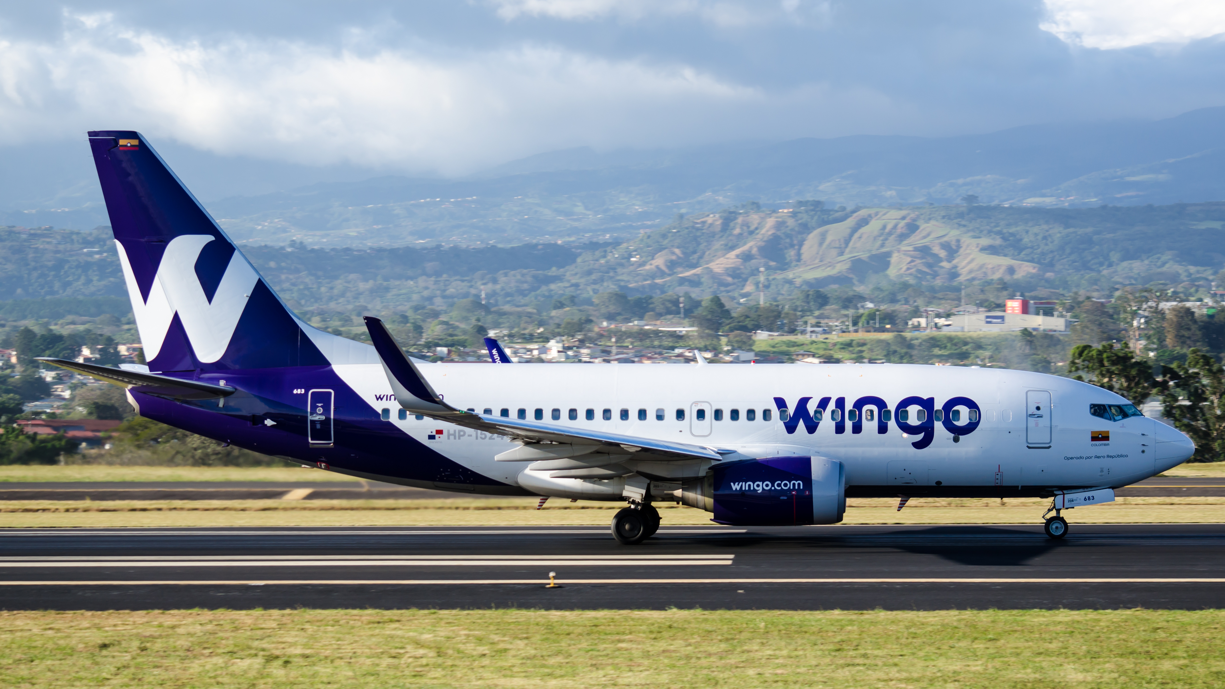 A Wingo Boeing 737-700 operated by Copa Airlines Colombia (AeroRepública).